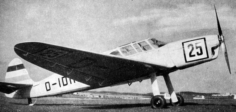 Klemm Kl 36 photo from L'Aerophile October 1934